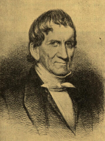 Portrait of Moses Sheppard (1771-1857)